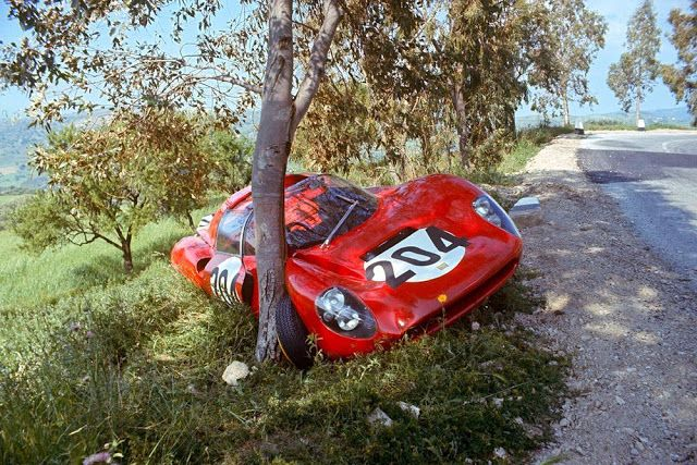 1966 Dino 206 S Spyder s/n 004 at Targa Florio on 8 May 1966, driven by Ludovico Scarfiotti and Mike Parkes, entered as #204 by the Ferrari SEFAC ("works" factory team). They did not finish.[1]